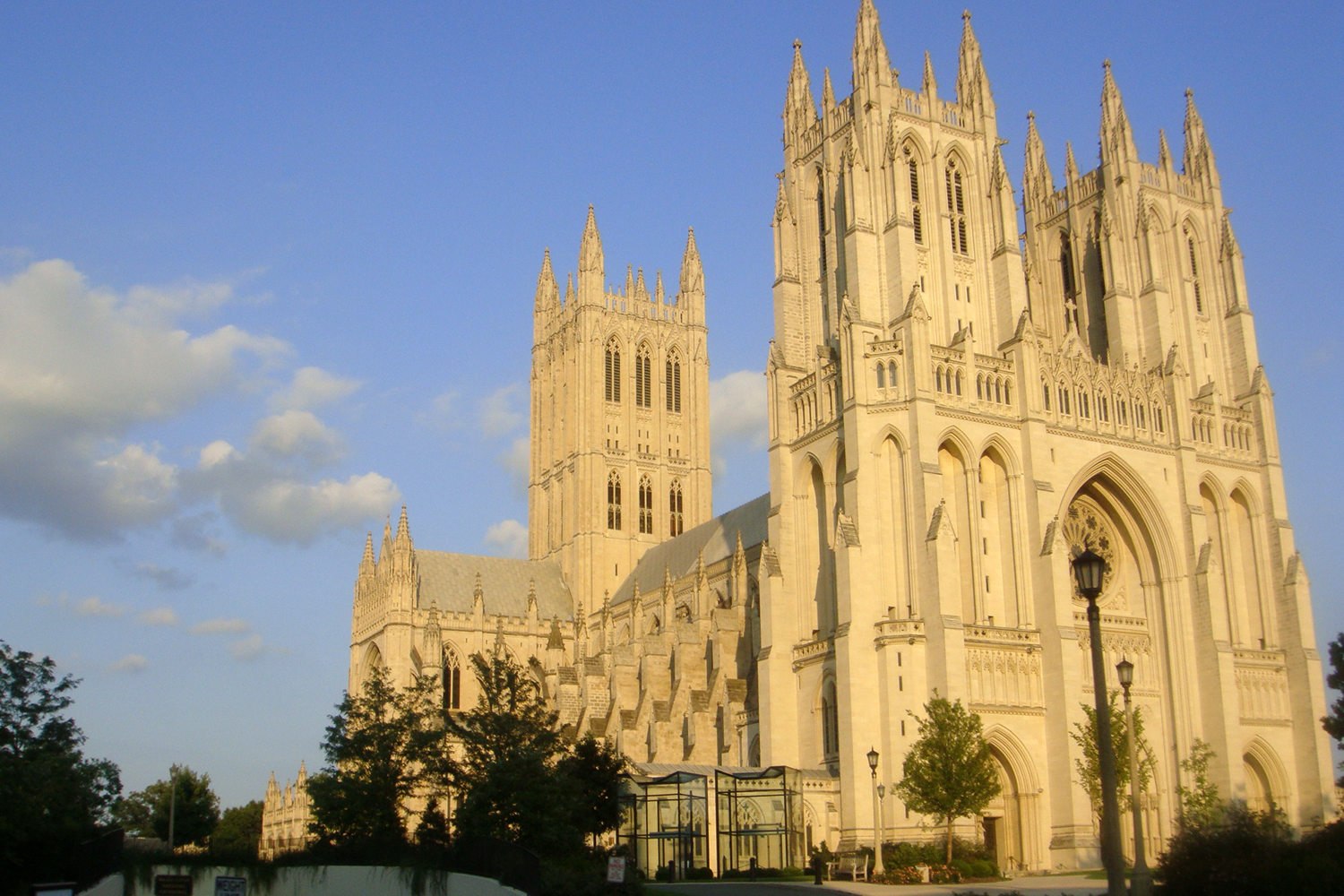 The Washington National Cathedral, also known as the Cathedral Church of Saint Peter and Saint Paul, at sunset, Washington, D.C.